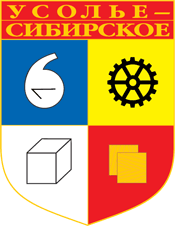 Ussolie-Sibirskoye (Irkutsk oblast), coat of arms